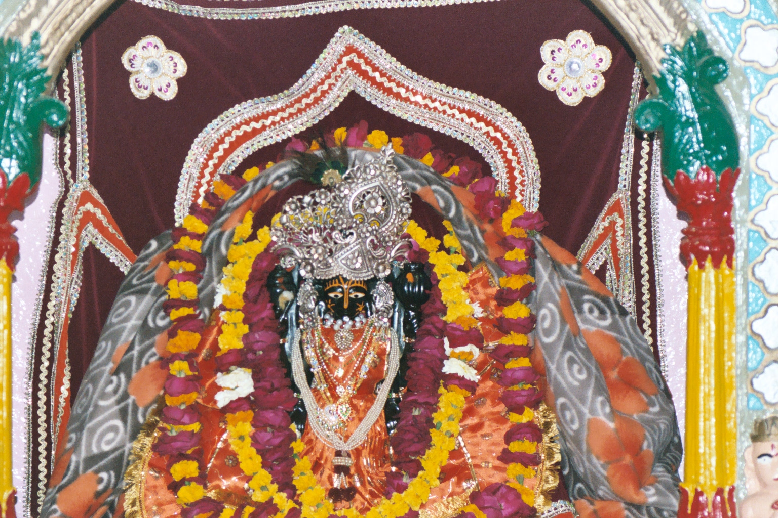 Featuring the main deity of the temple, God Keshav Dev. At the Keshav Dev Temple in Mathura, UP, INDIA.